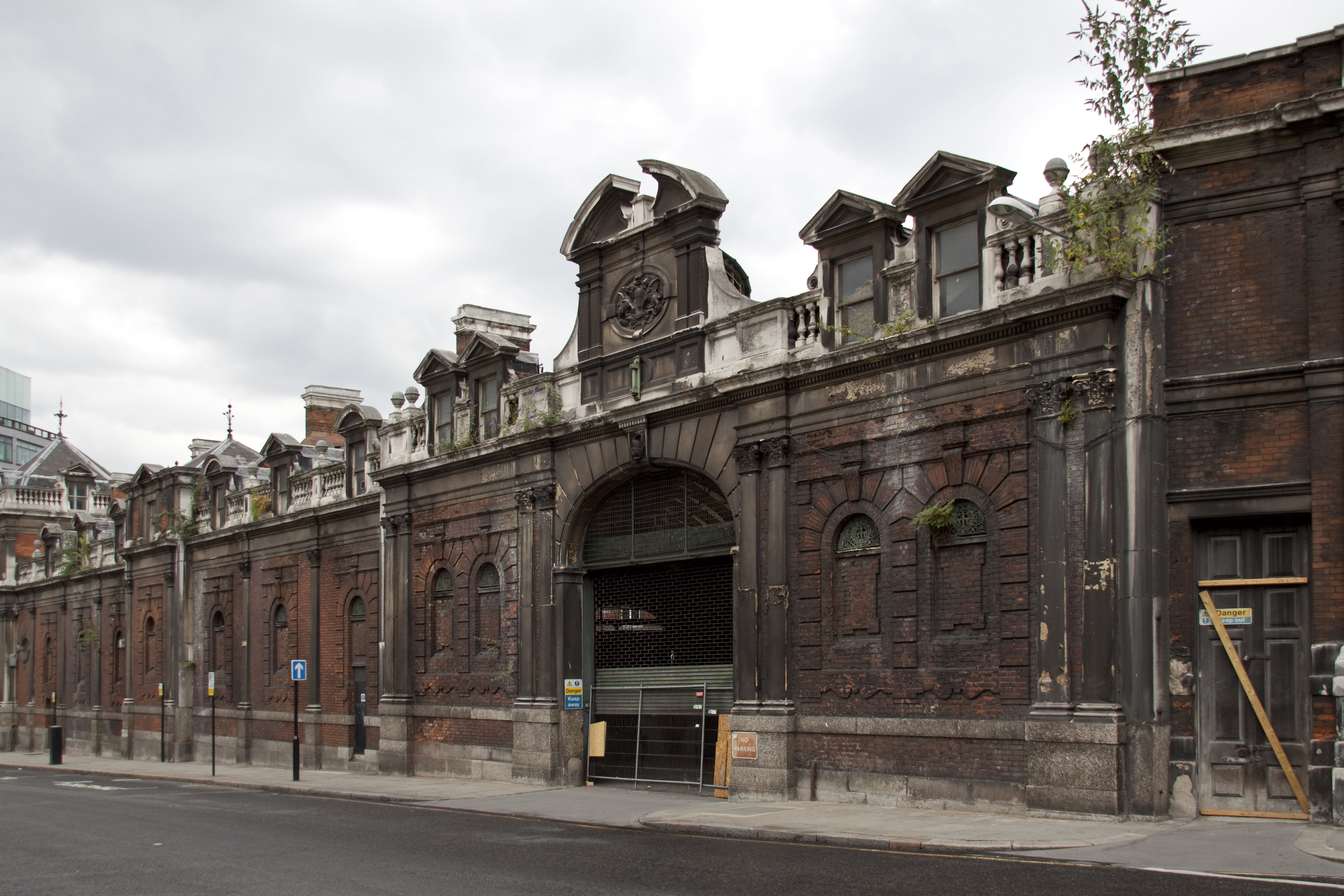 Smithfield 1